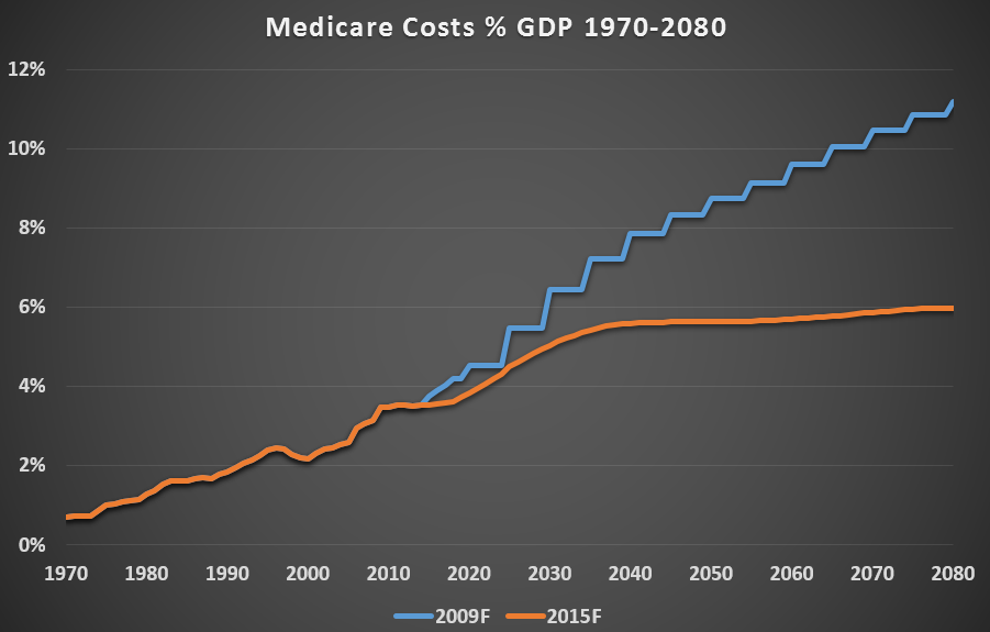 Medicare Cost to GDP Trustee Forecast Comparison.png